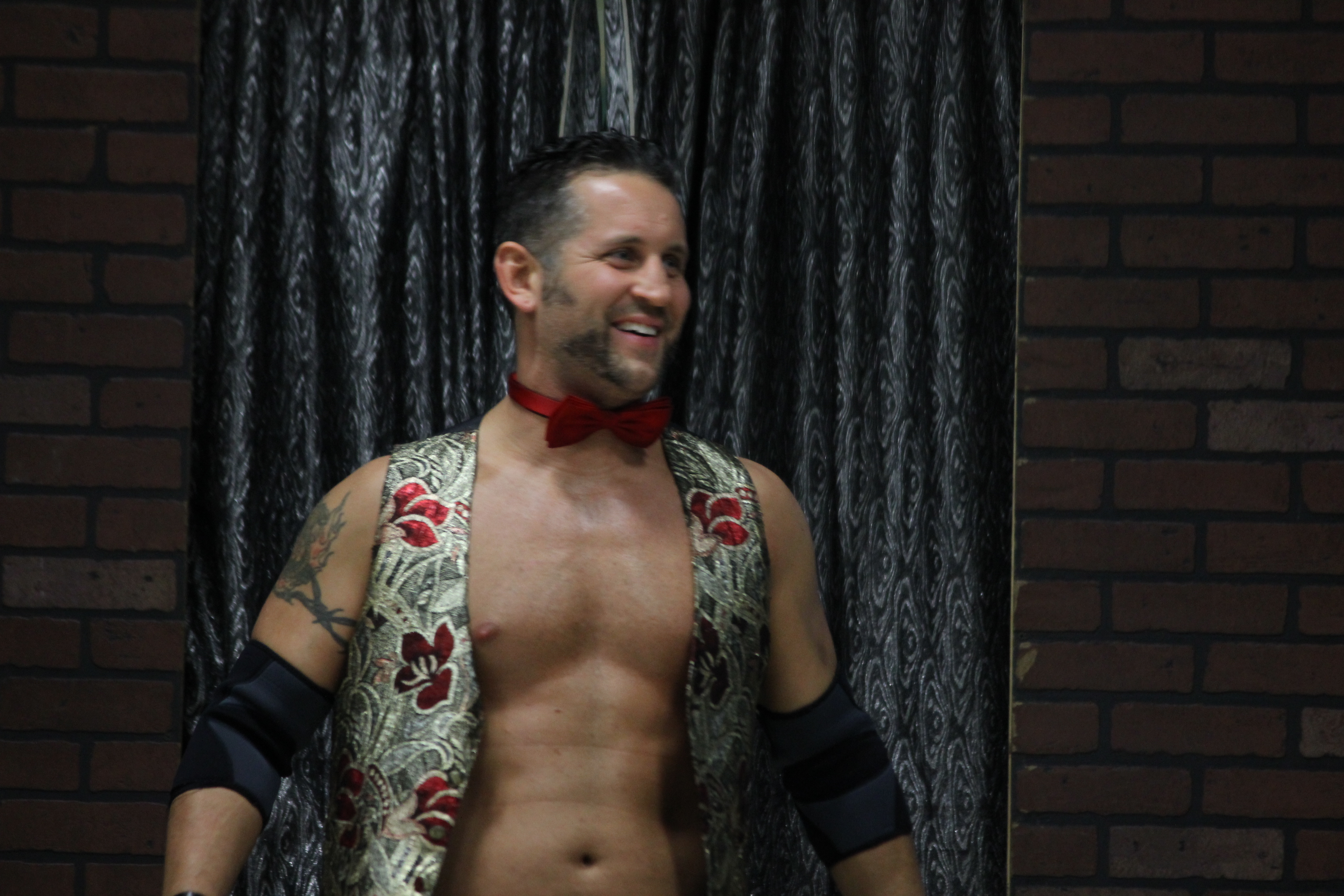 pro wrestler